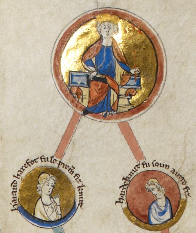 Cnut, king of England, Denmark, and Norway, and his sons Harald Harefoot and Harthacnut. Cnut's mother's Świętosława / Sigrid the Haughty, although a Slavic princess, daughter to Mieszko I of Poland (in accord with the Monk of St Omer's, Encomium Emmae[5] and Thietmar of Merseburg's contemporary Chronicon[6]), is likely.[7] Norse sources of the high medieval period, most prominently Snorri Sturluson's Heimskringla, also give a Polish princess as Cnut's mother, whom they call Gunhild and a daughter of Burislav, the king of Vindland.[13] Since in the Norse sagas the king of Vindland is always Burislav, this is reconcilable with the assumption that her father was Mieszko (not his son Bolesław).